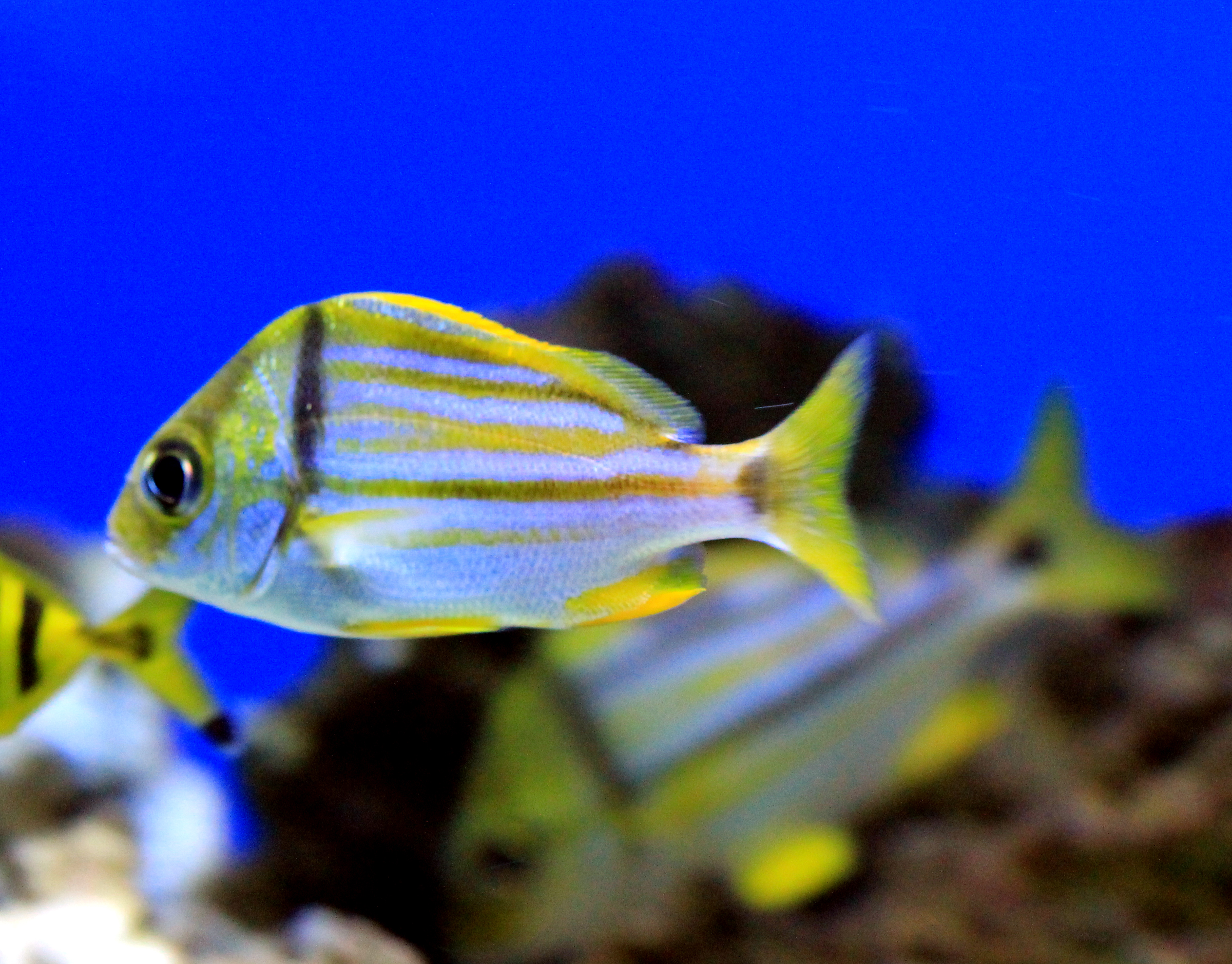 Fish Anisotremus virginicus , (Anisotremus virginicus ) in Prague sea aquarium “Sea world”, Czech Republic Česky: Ryba chrochtal prasečí, Anisotremus virginicus v pražském mořském akváriu Mořský svět v Holešovicích